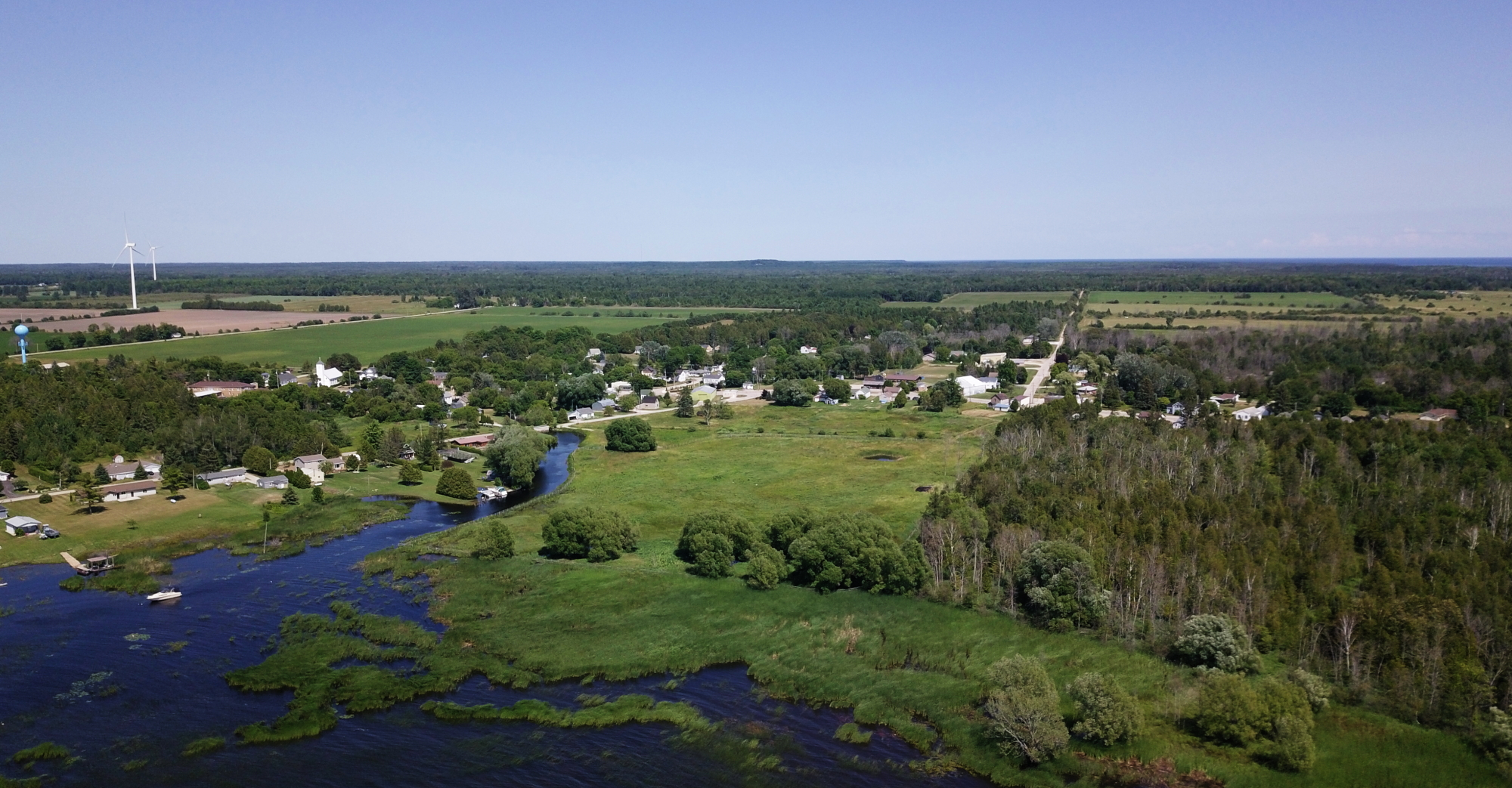 Garden, Michigan. June 23, 2019